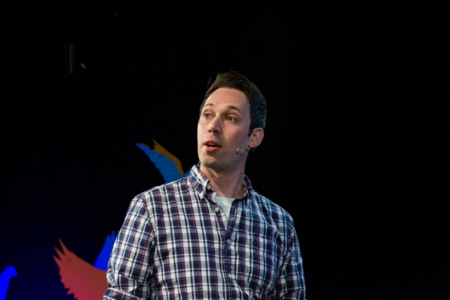 Sander van der Linden @ Hay Festival 2019